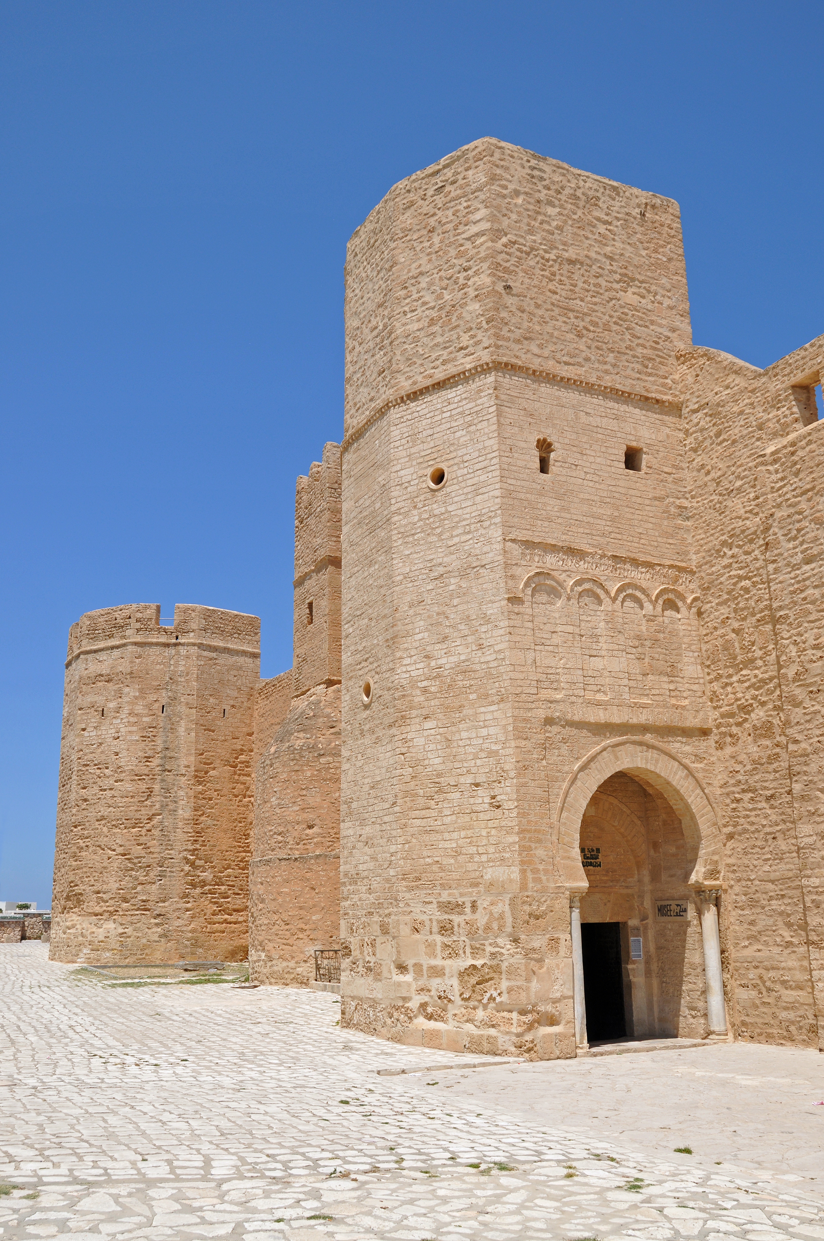 The ribat of Monastir is the oldest and most important defensive work to have been built along the North African coastline by the Arab conquerors in the early days of Islam. Founded in 796, this building underwent several modifications during the medieval period. Initially, it formed a quadrilateral and then was composed of four buildings giving onto two inner courtyards. A spiral stair of about a hundred steps leads to the watchtower form the top of which visual messages were exchanged at night with the towers of neighbouring Ribats